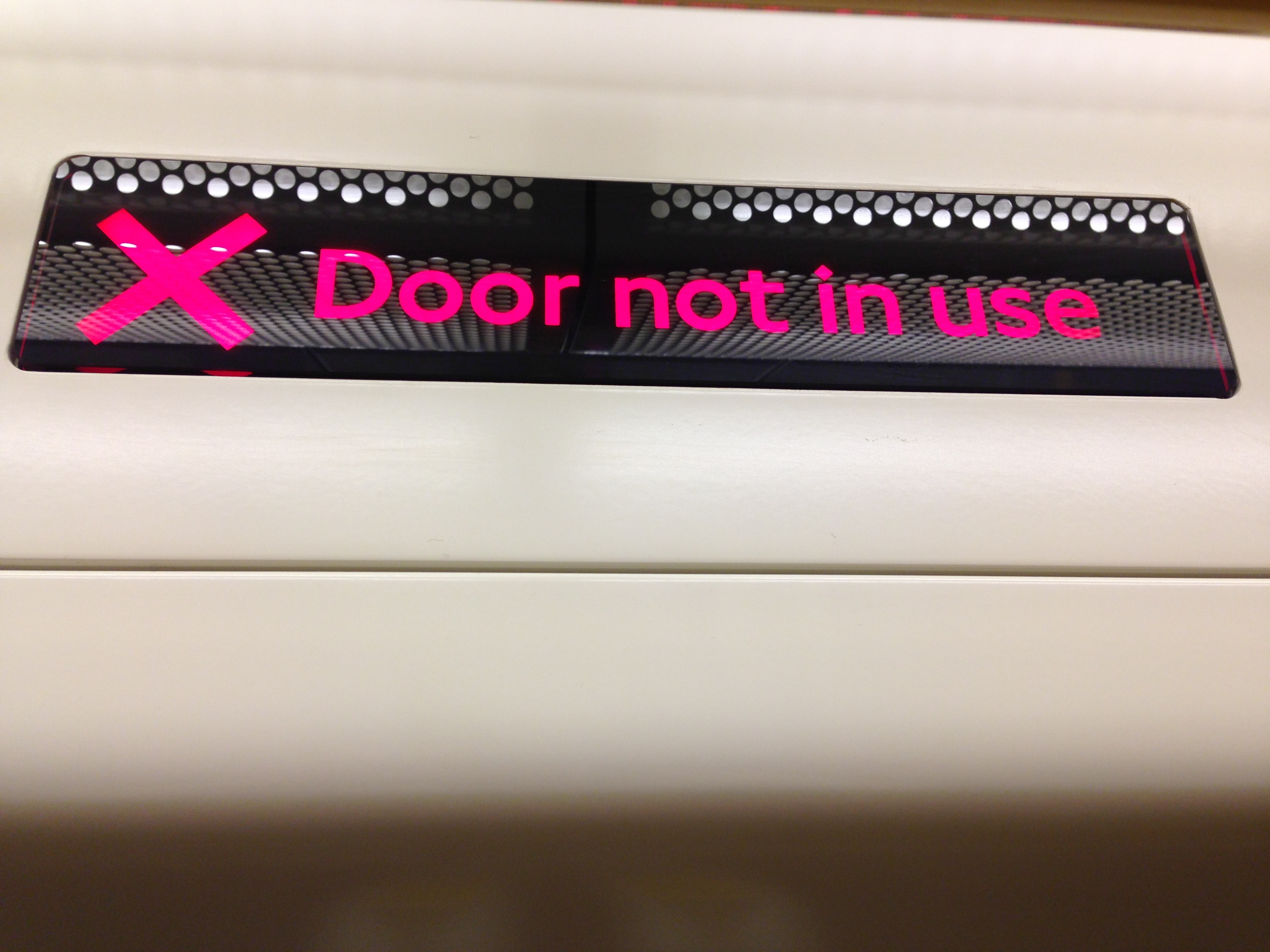 An indicator lamp on a London Underground S7 stock. It illuminates at stations where the door underneath the lamp does not open because the length on some stations is not long enogh.